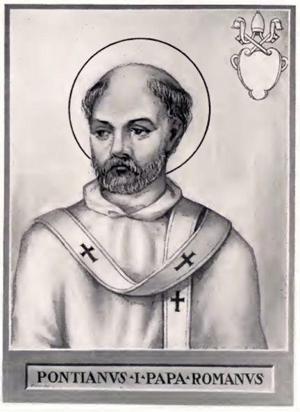 This illustration is from The Lives and Times of the Popes by Chevalier Artaud de Montor, New York: The Catholic Publication Society of America, 1911. It was originally published in 1842.